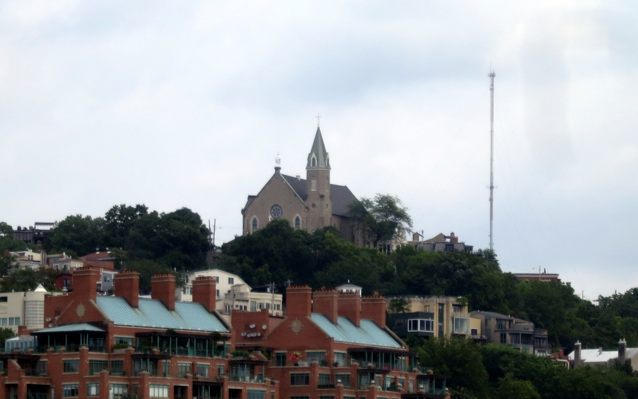 Holy Cross-Immaculata Church - as seen from the Purple People Bridge